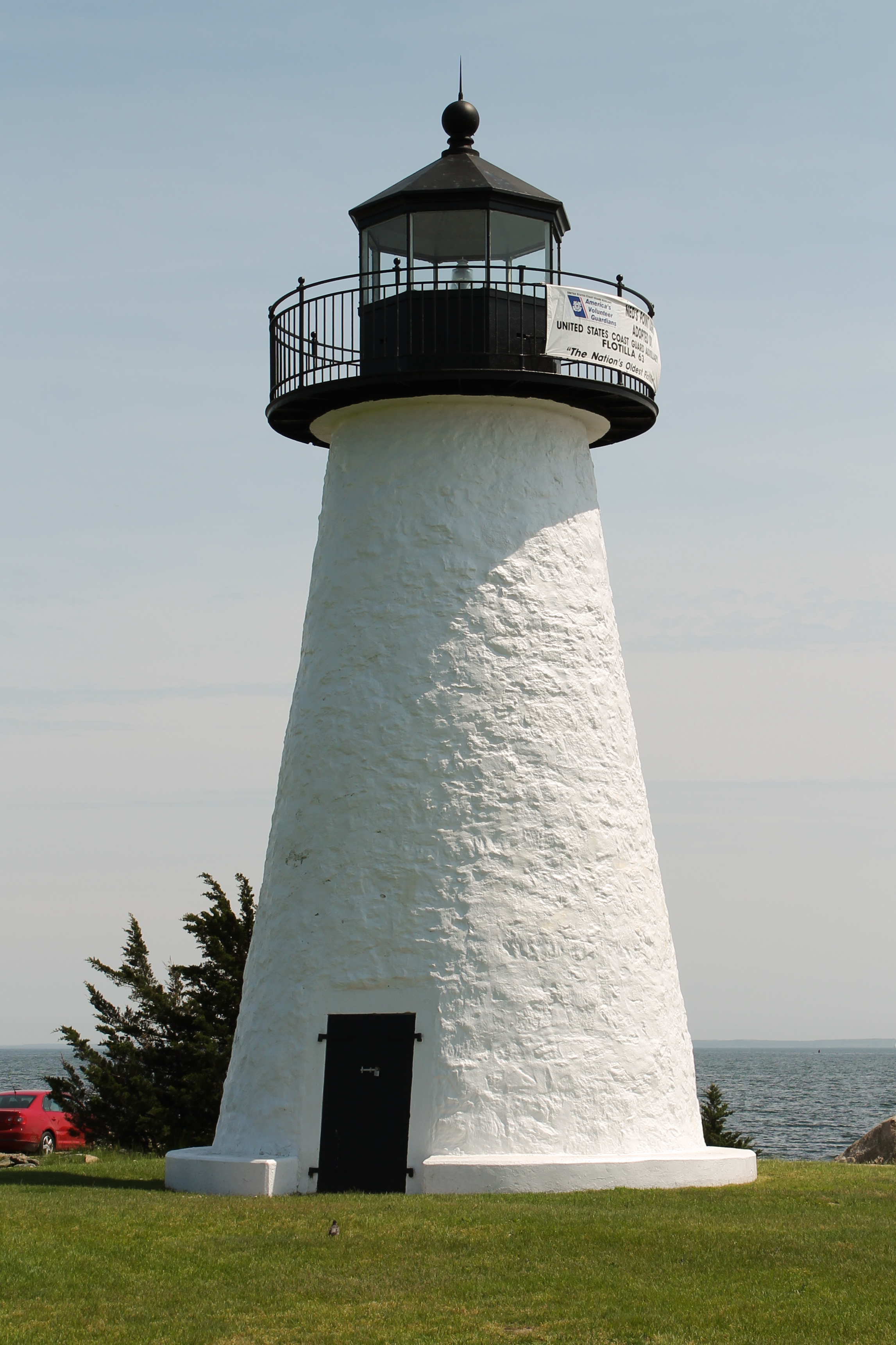 The lighthouse located at Ned Point in Mattapoisett, Massachusetts.